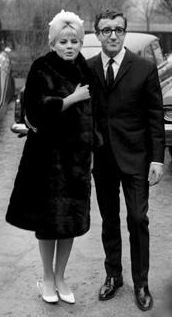 Britt Ekland and Peter Sellers 1964.